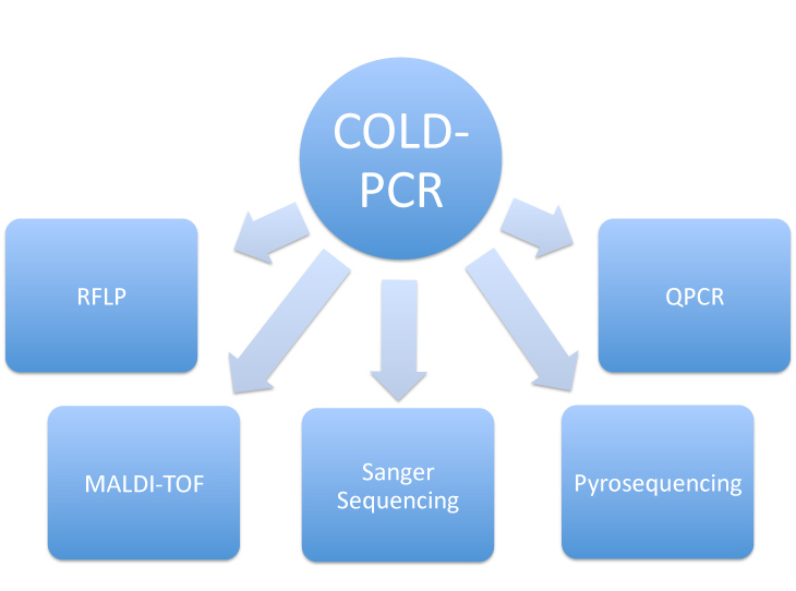 Some of the downstream applications of COLD-PCR.